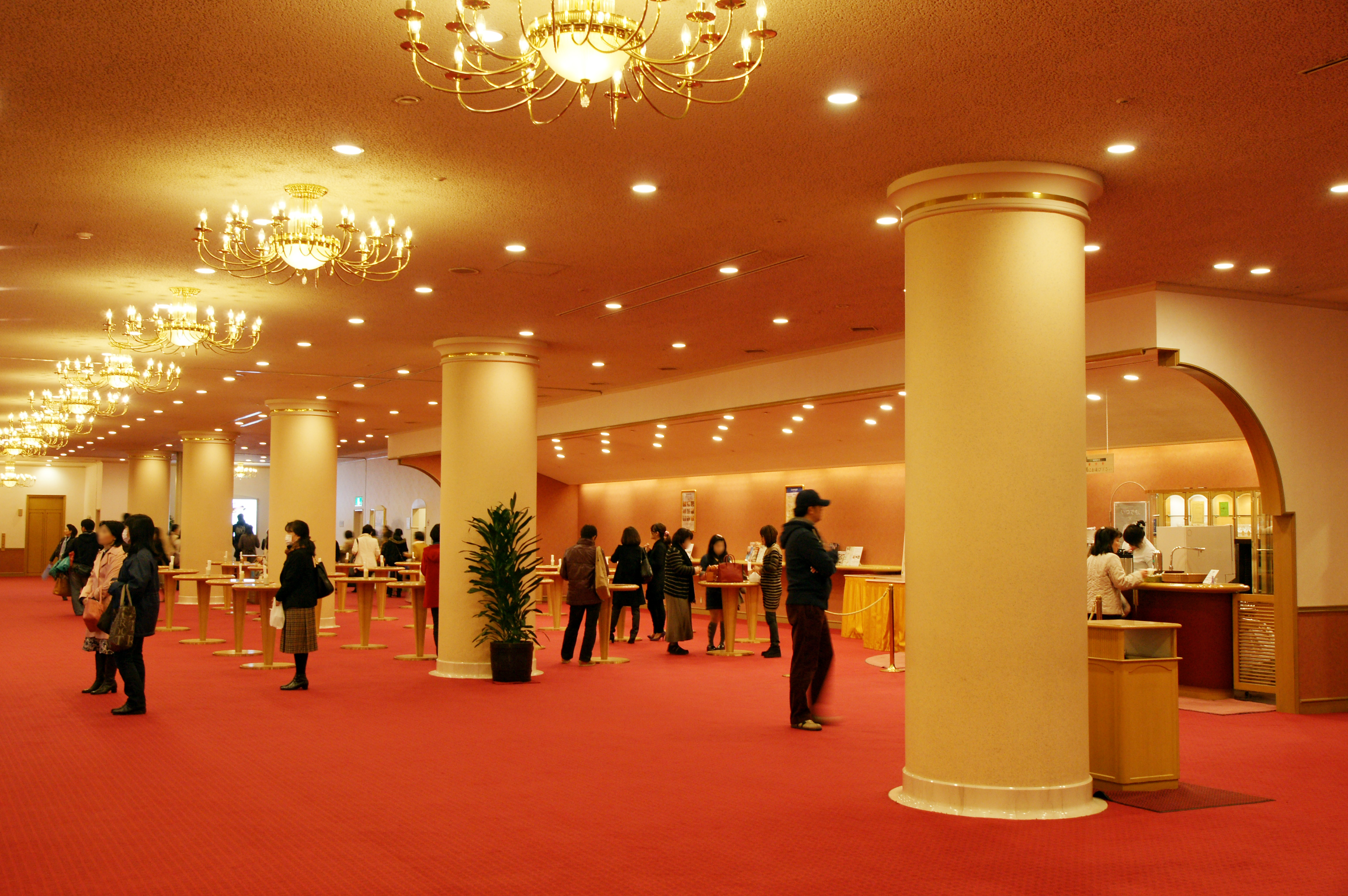 Takarazuka Grand Theater in Takarazuka, Hyogo prefecture, Japan